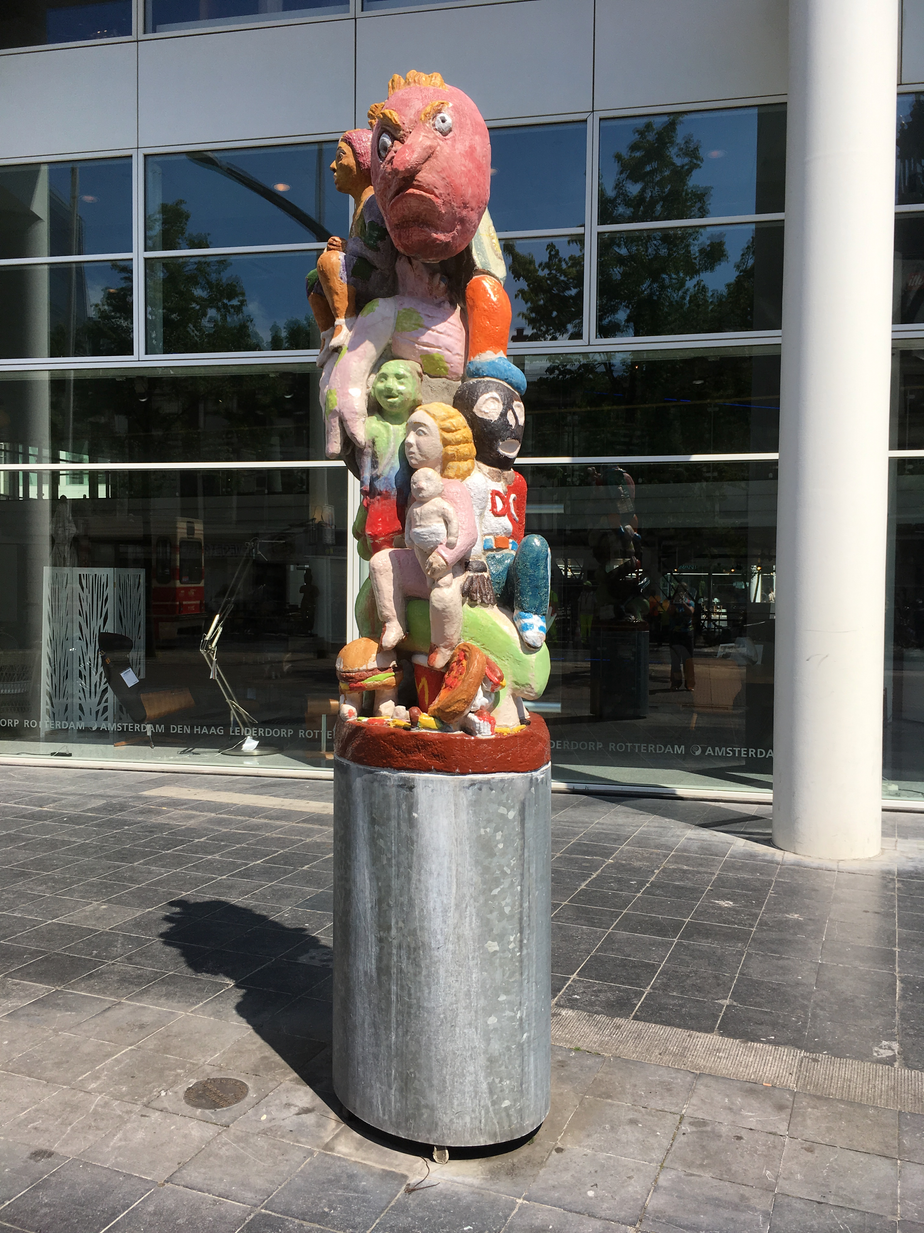 Public sculpture by Ingrid Mol in The Hague